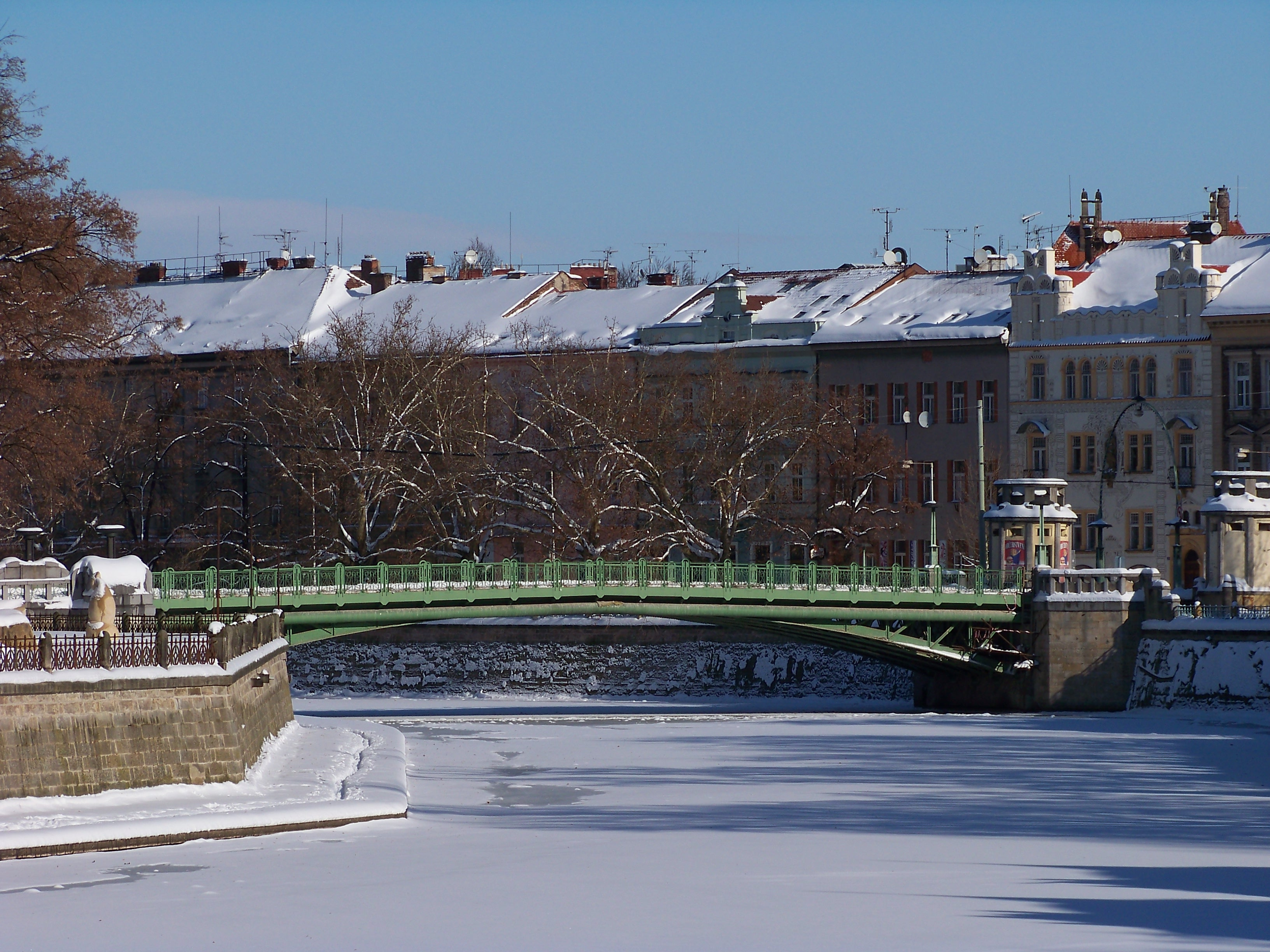 Hradec Králové, the Czech Republic. Pražský Bridge on the frozen Elbe River and Eliška's Embankment, a view from Hučák Weir.